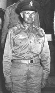 Picture of Walter Short from License: Information presented on this website, unless otherwise indicated , is considered in the public domain.